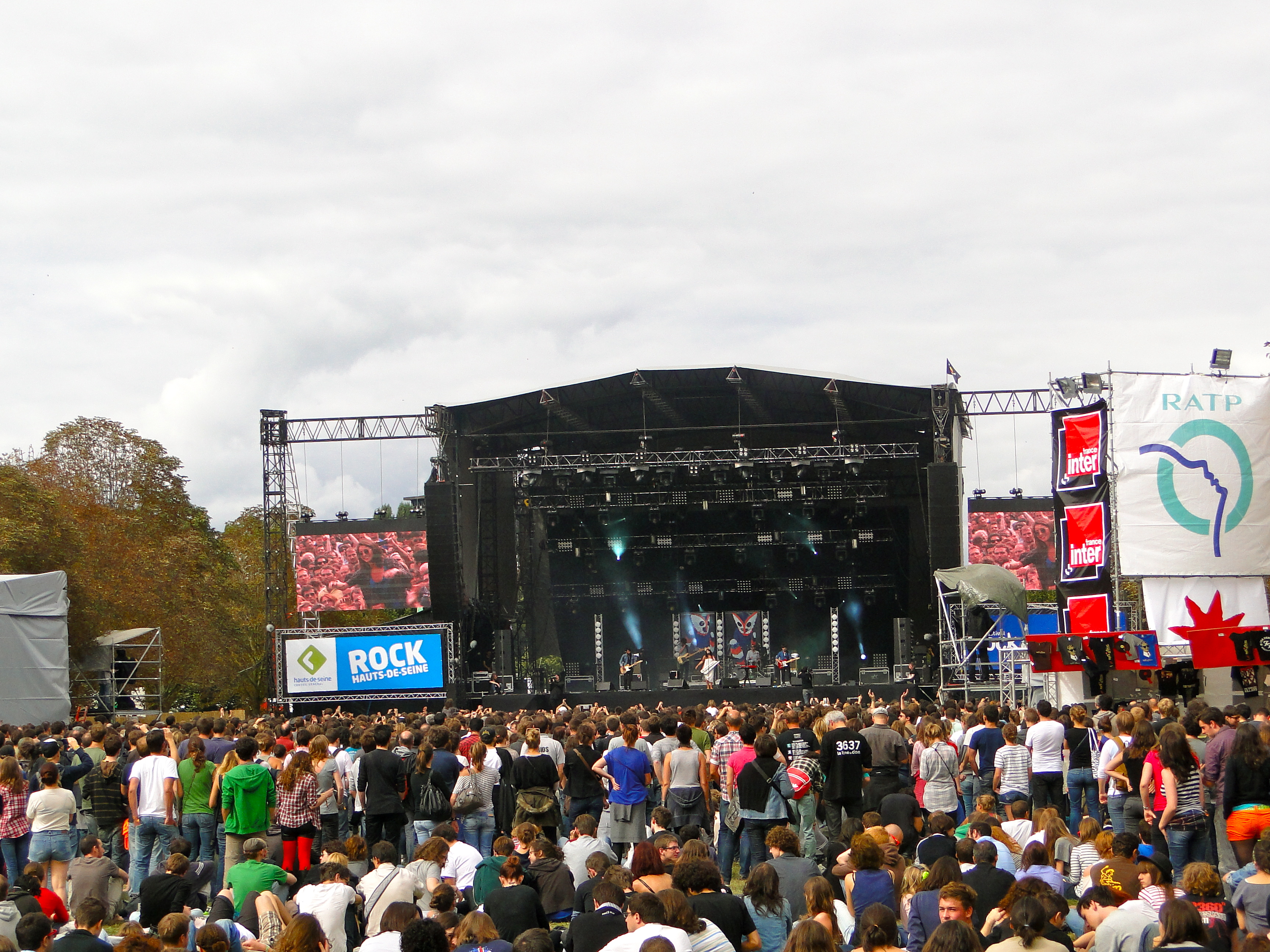 Rock en Seine, "Scène de la cascade", August 2011